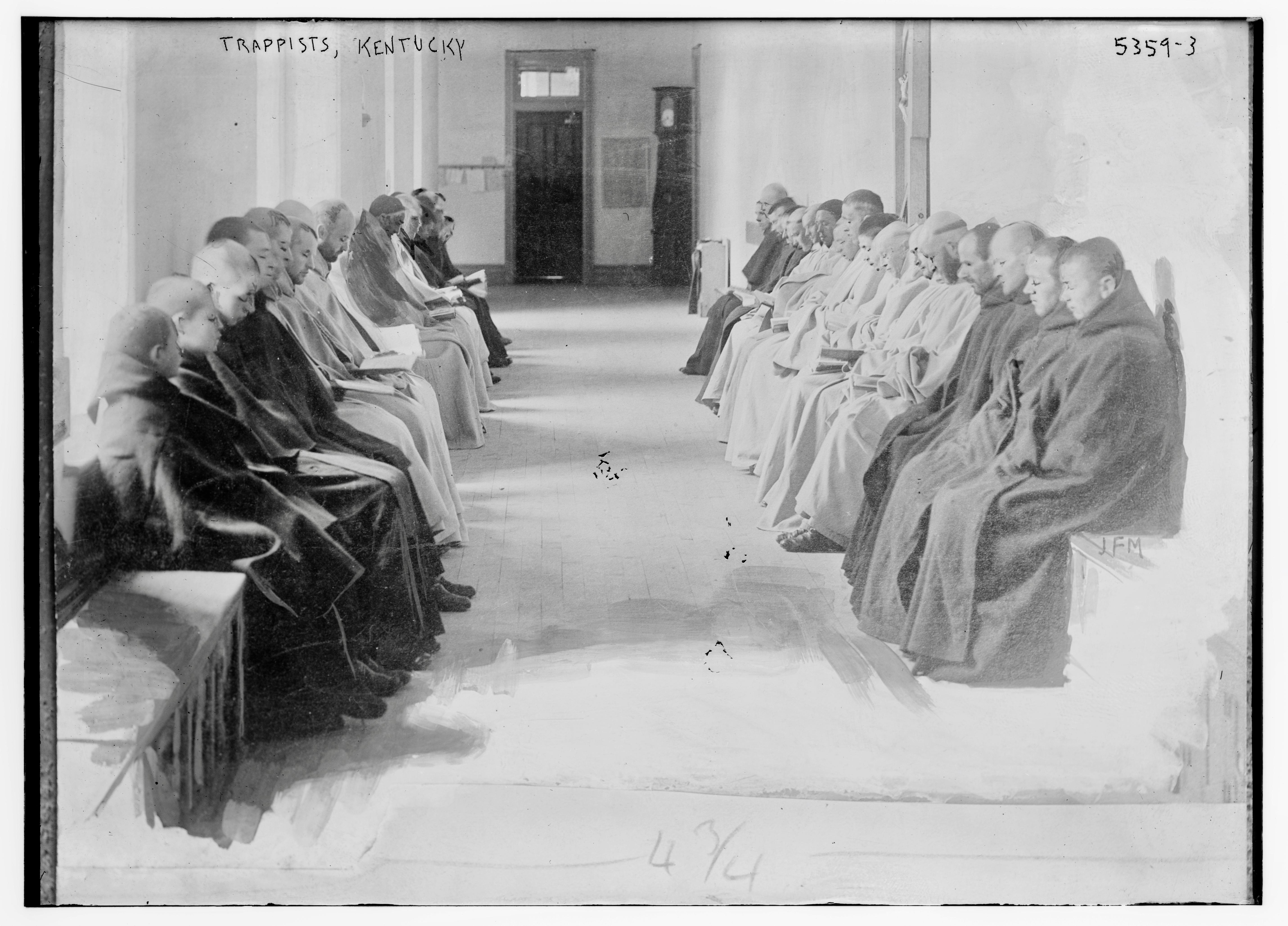 No restrictions on publications of this public domain image of Trappist Cistercian monks in Kentucky USA